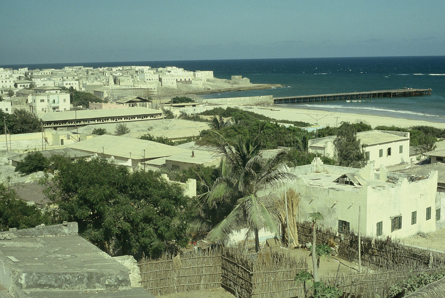 A view of the port city of Merca in southern Somalia.